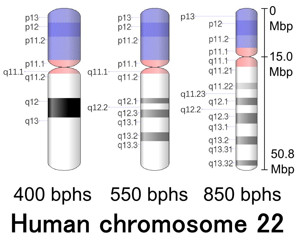 Ideograms of G-band pattern of human chromosome 22 in three different resolutions (400, 550 and 850 bphs, bands per haploid set). Different resolutions are corresponding to different band patterns observed through mitotic phase (about relation between banding resolution and mitotic phase, see, for example, Fig.3 in W Sethakulvichaia (2012)). Legend: Black and gray is Giemsa positive. Red is centromere. Light blue is variable region. Dark blue is stalk. At the right, centromere position (center) and q arm terminus position (bottom), counted from p arm terminus (top) in Mbp (mega base pairs), are labeled. Physical length (sometimes referred as "absolute length") is not labeled. Because physical length of chromosomes vary while mitosis. (typical human chromosome physical length is in the order of from several micrometers to ten and several micrometers. See, for example, Category:Human chromosome images with scale bars.).